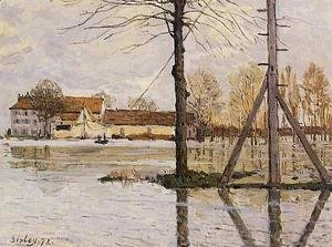 Work by Alfred Sisley